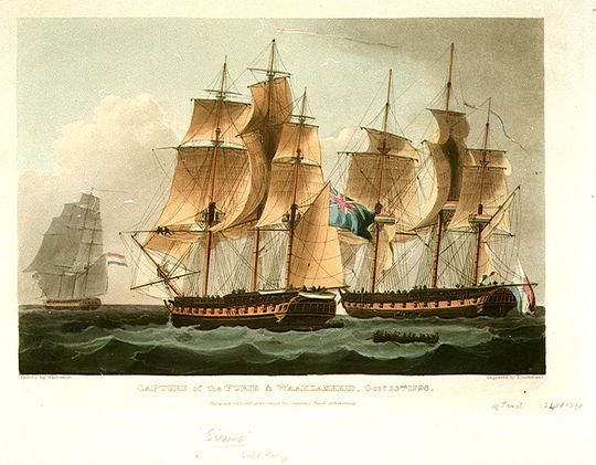 Engraving of a painting of HMS Sirius capturing the Dutch ships Furie and Waakzaamheid, 24 October 1798, created 1 October 1816.